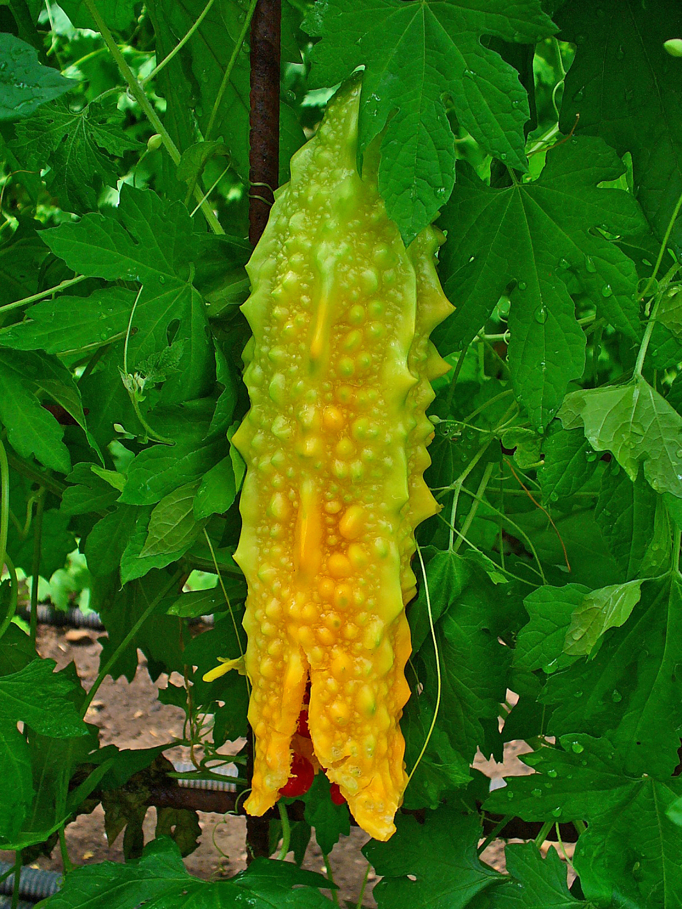 Momordica charantia, Cucurbitaceae, Bitter Melon, Bitter Gourd, fruit, splitting open.